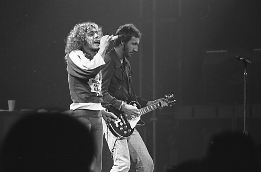 Roger Daltrey and Pete Townshend of The Who performing at Maple Leaf Gardens, Toronto, Oct. 10, 1976.